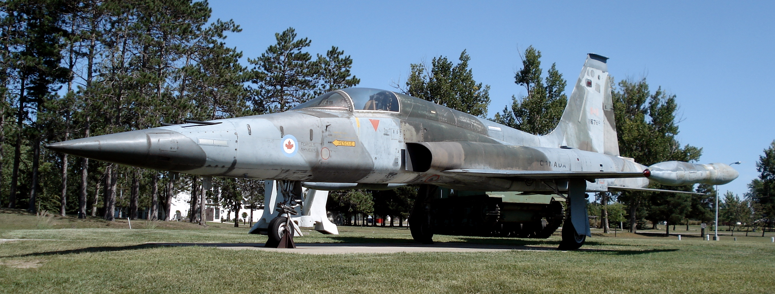 CF-116 (Canadian version of F-5 Freedom Fighter) displayed on the grounds of CFB Borden (Base Borden Military Museum). Photo taken on August 12, 2006. Source: Photo by me, User:Balcer.